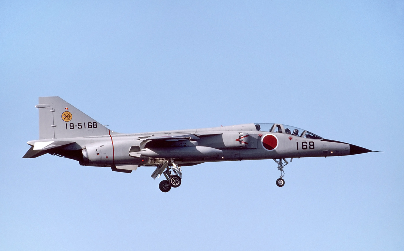 Tsuiki airbase had a squadron (6 Hikotai) of F-1 fighter bombers and a few T-2s for training.